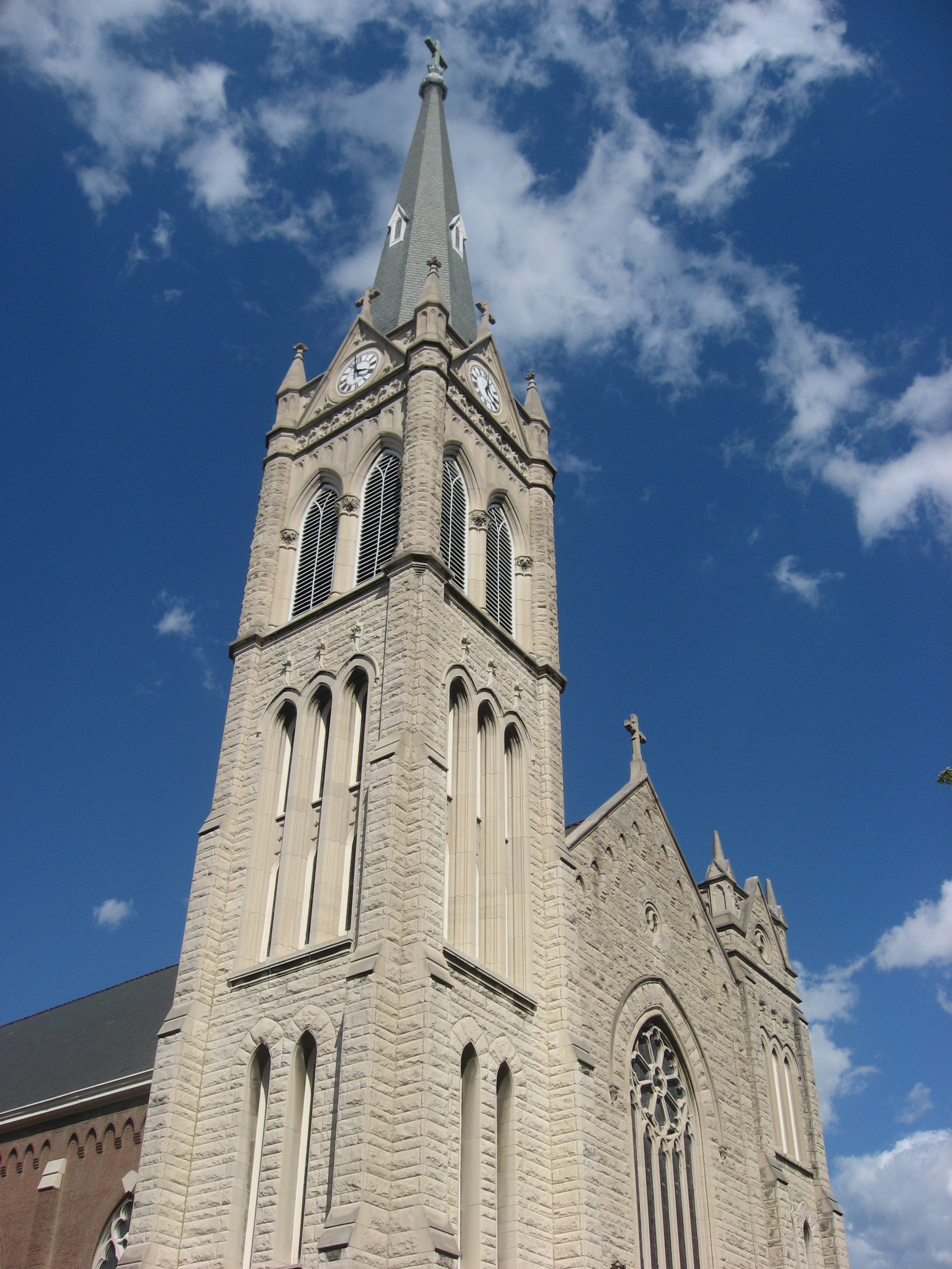 Front and western side of St. Boniface's Catholic Church, located at 501-531 E. Liberty Street (U.S. Routes 31/60) in downtown Louisville, Kentucky, United States. Built in 1899, it is listed on the National Register of Historic Places.